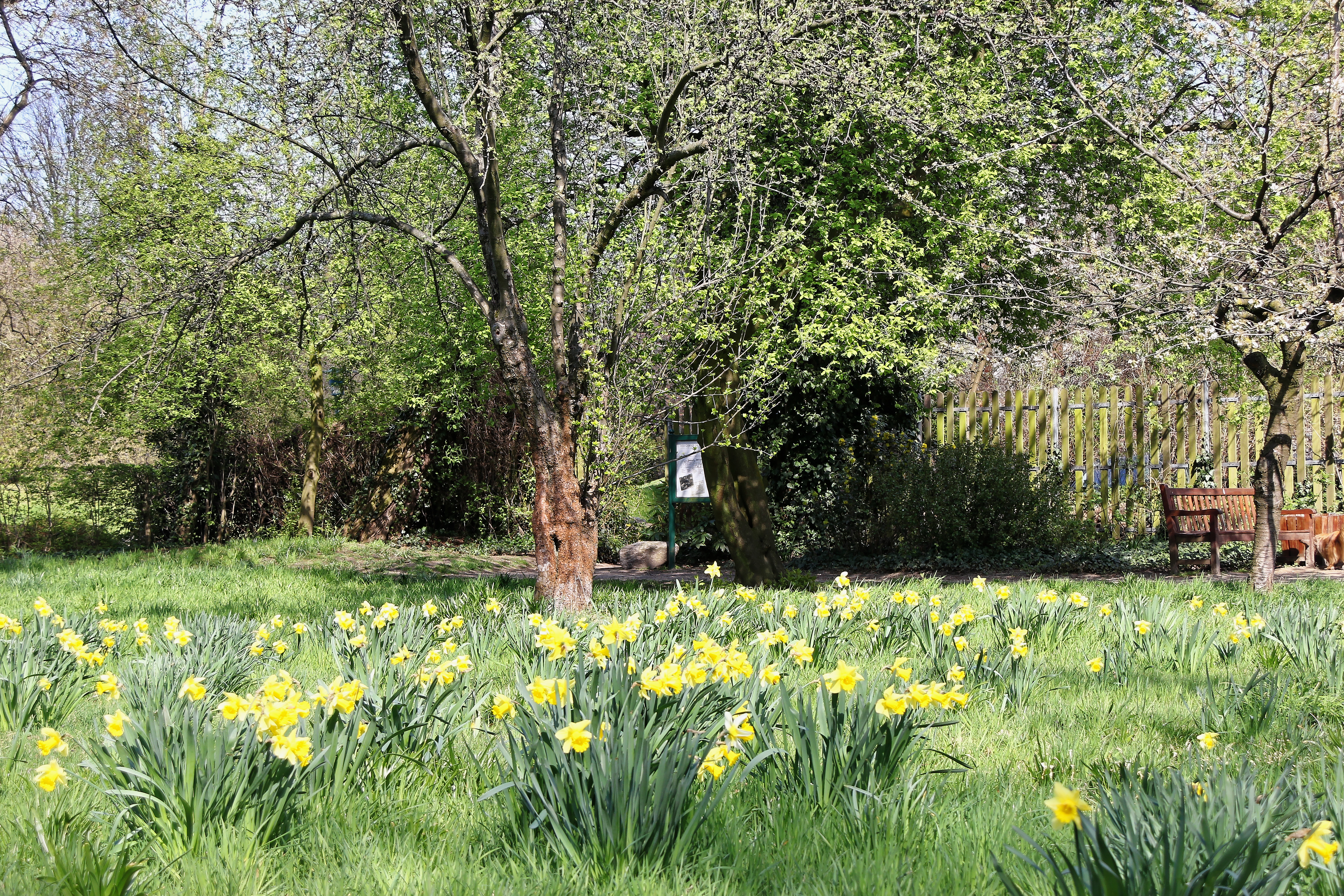 Hamburg-Eppendorf, Garden de l'Aigle